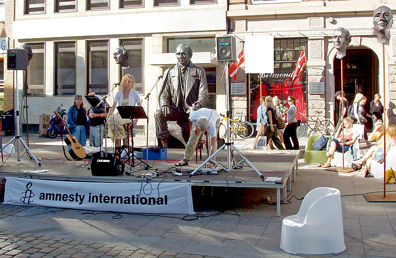 Amnesty International-event in Aarhus Festuge, Denmark august 2005. H.C. Andersen-statues is made by the artist Jens Galschiøt.